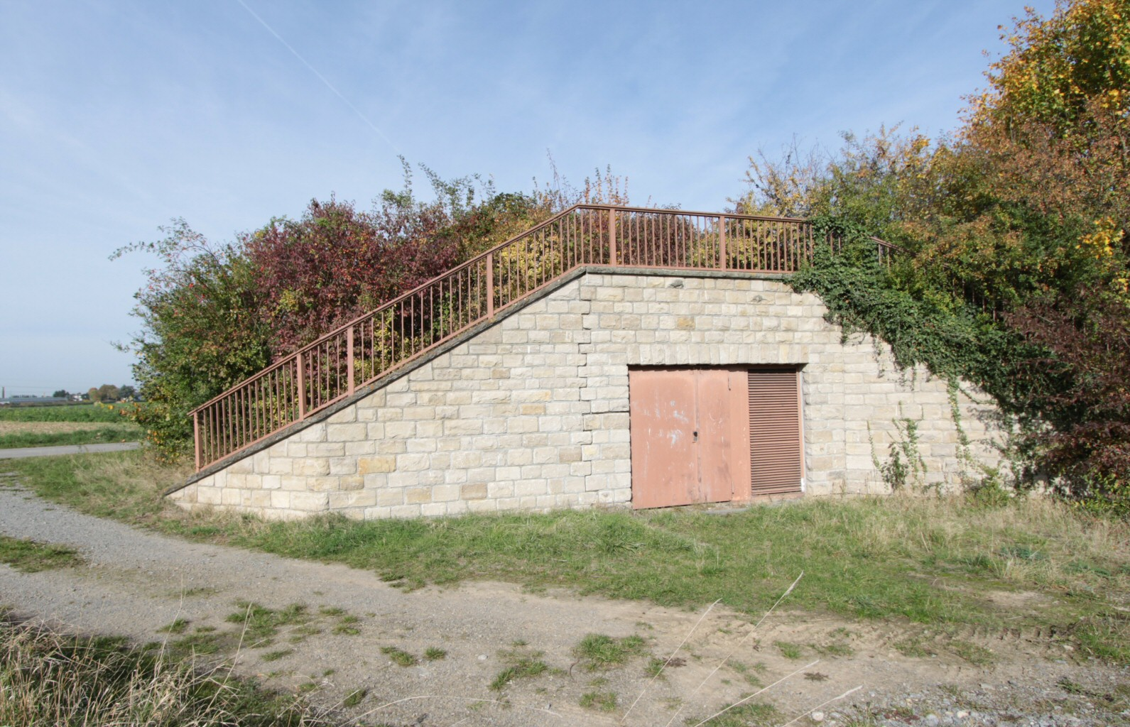 The northwest emergency exit of Langes Feld Tunnel, Mannheim-Stuttgart high-speed railway line.